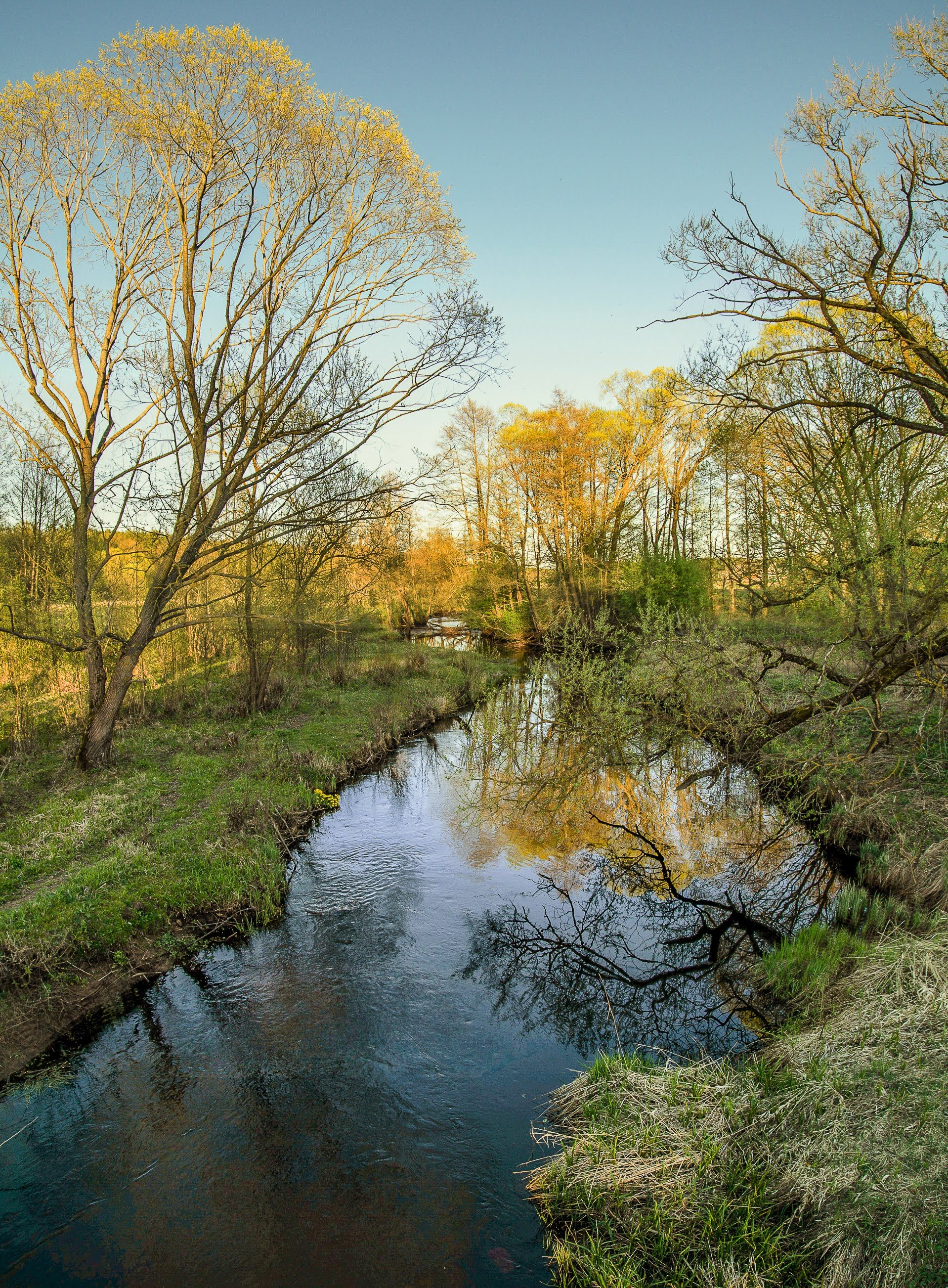 Spyaglitsa